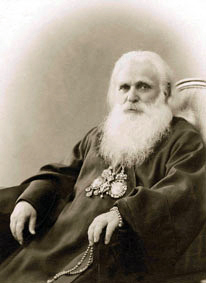 Patriarch Ambrose of Georgia, 1920s photo